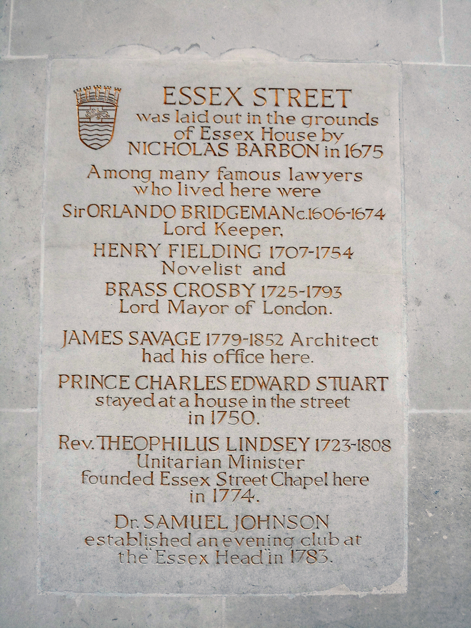 Commemorates the historical associations of the whole street.